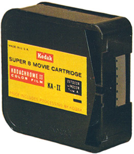 Super 8 film, Kodachrome II